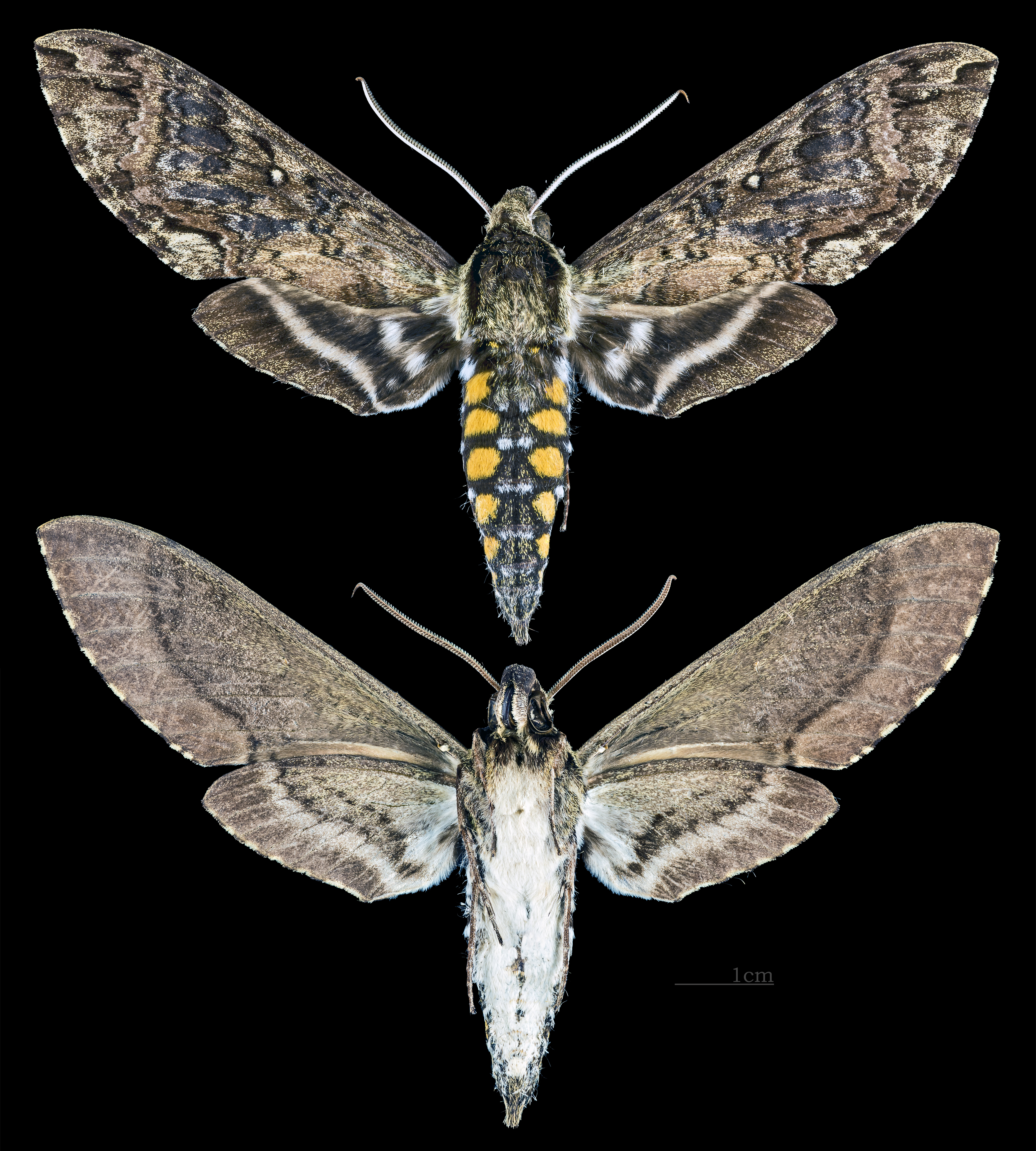 Manduca scutata - Two views of same specimen Collection of the Mathematician Laurent Schwartz